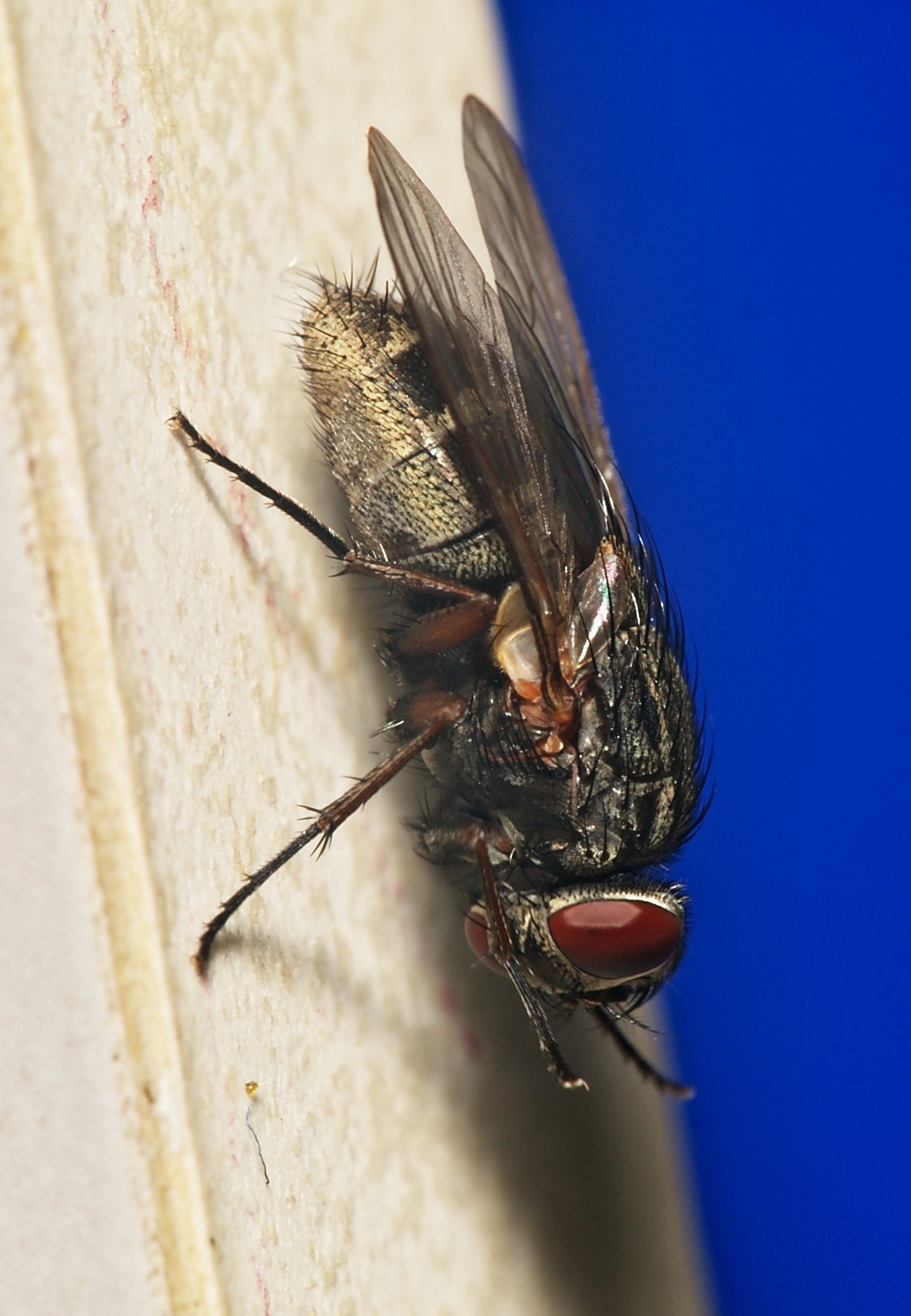 Muscina stabulans (det. Joke van Erlens) from Cologne, Germany.